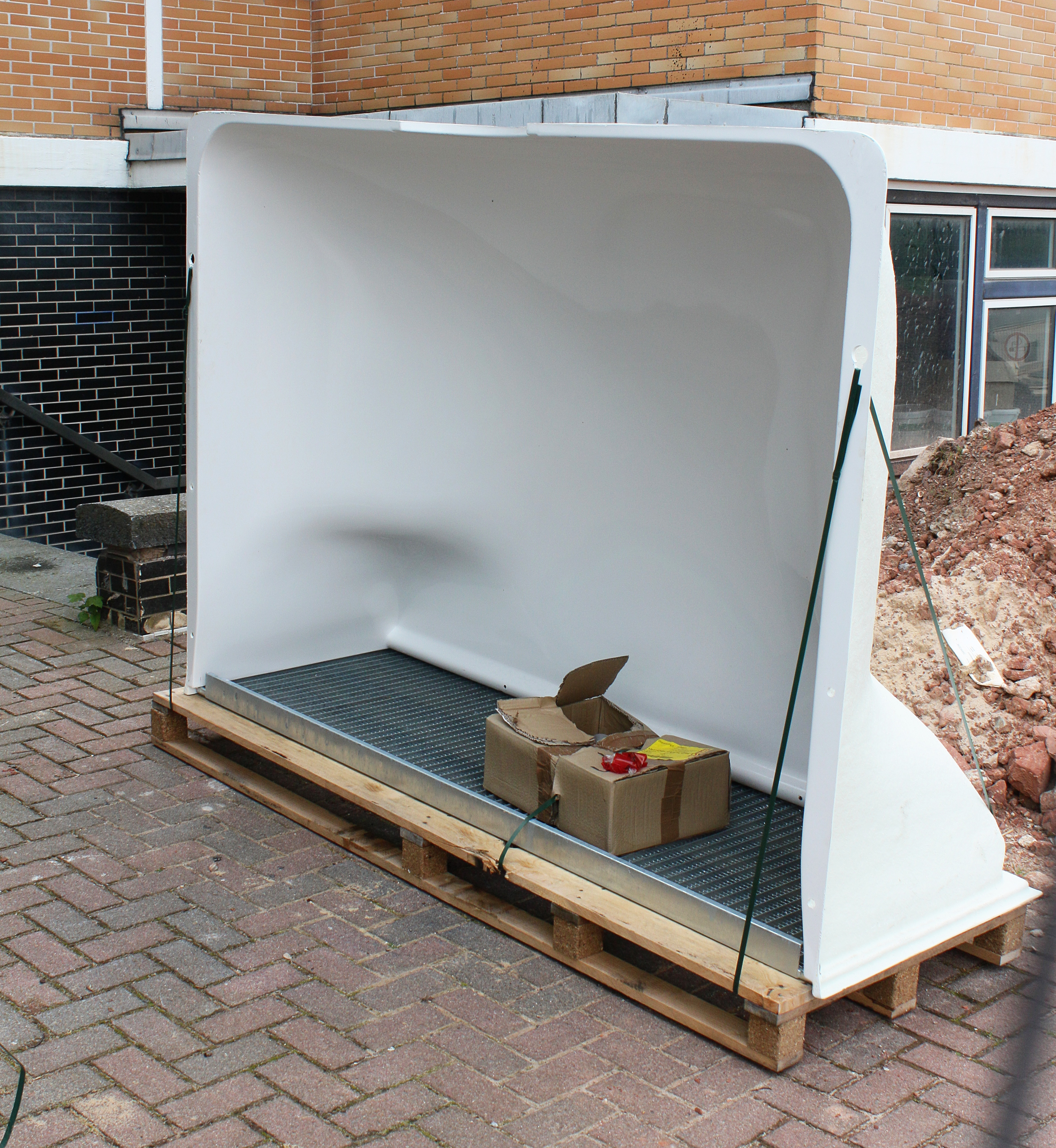 BASEMENT WINDOW LIGHT WELL